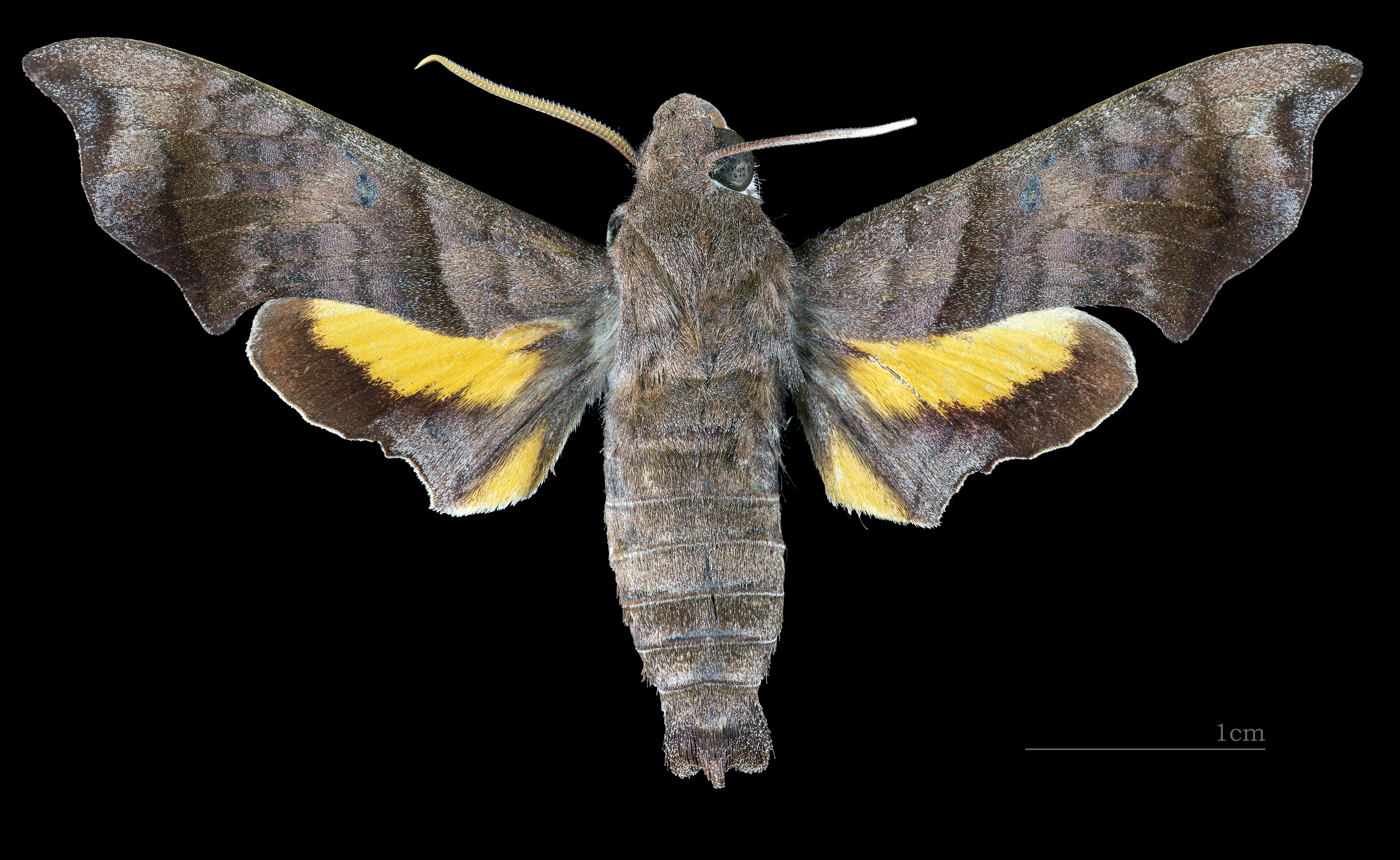 Perigonia pallida - Dorsal side Collection of the Mathematician Laurent Schwartz